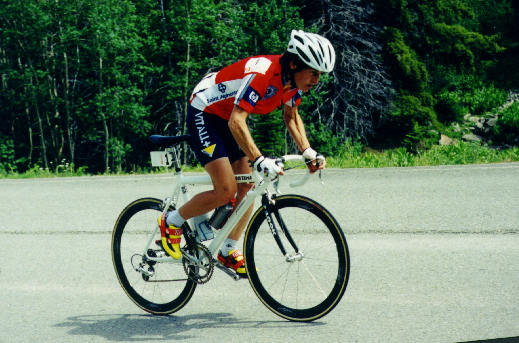 Jeannie Longo is shown here about 1 km below the finish line in the Rupert to Pomerelle Road Race (stage 4 of the 2000 Women's Challenge cycle race). Longo finished in first place in that stage, slightly over 2 and 1/2 minutes ahead of the second place finisher. She is wearing the red points jersey signifying that she was the overall points leader at this stage of the race. Her bike sports the number 1 as the result of her winning the previous year's edition of the Women's Challenge race and was thus the defending champion when this photo was taken (2000).